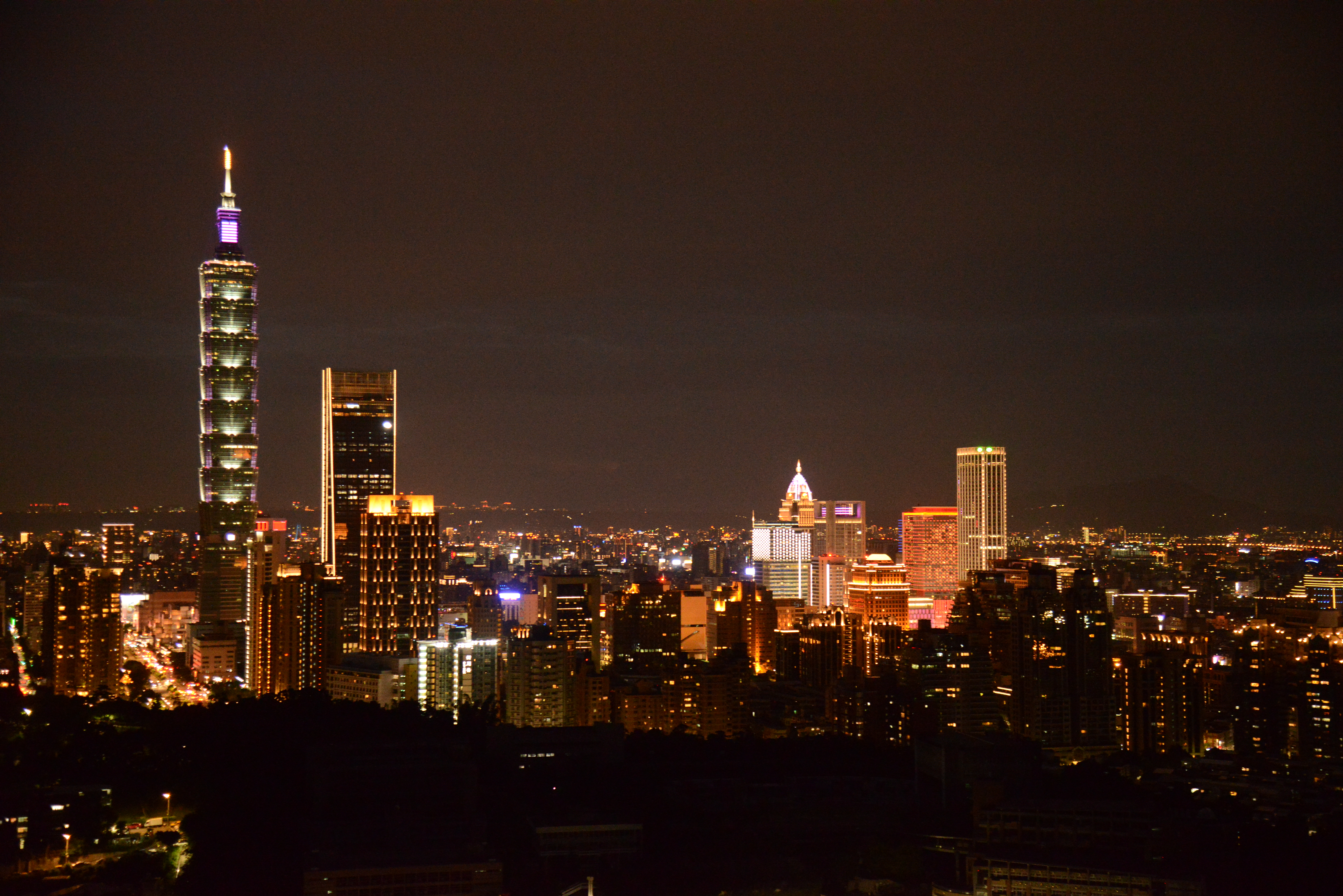 View of the night skyline of Taipei, Taiwan viewed from the observatory of Mt. Tiger photographed in June 2019